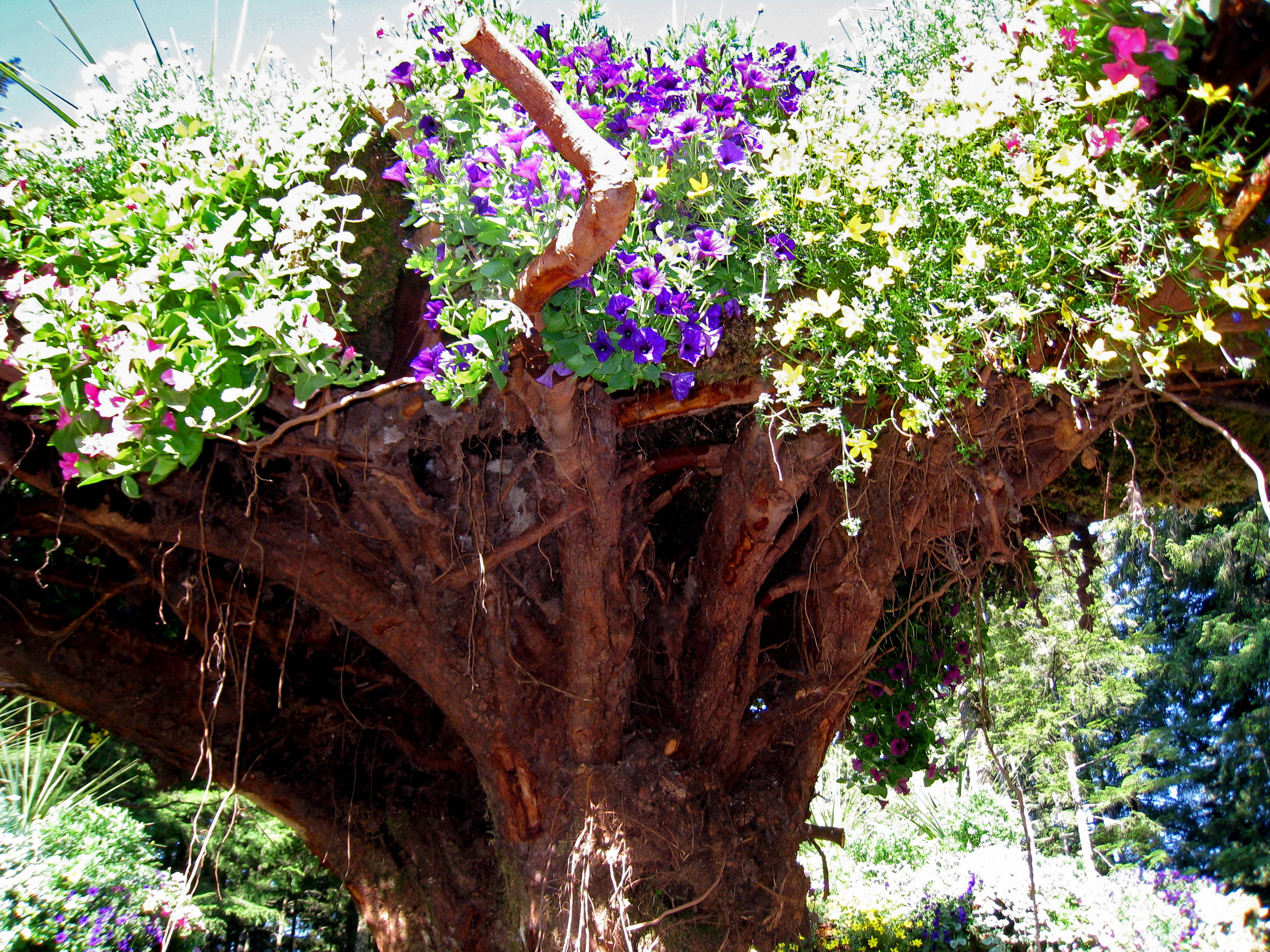 Glacier Gardens outside Juneau, features plantings in upturned trees